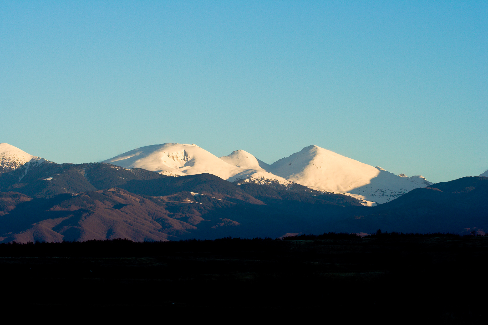 "Trite vurha" - The three peaks in Pirin mountain, Bulgaria. Picture taken nearby Yanovo village.